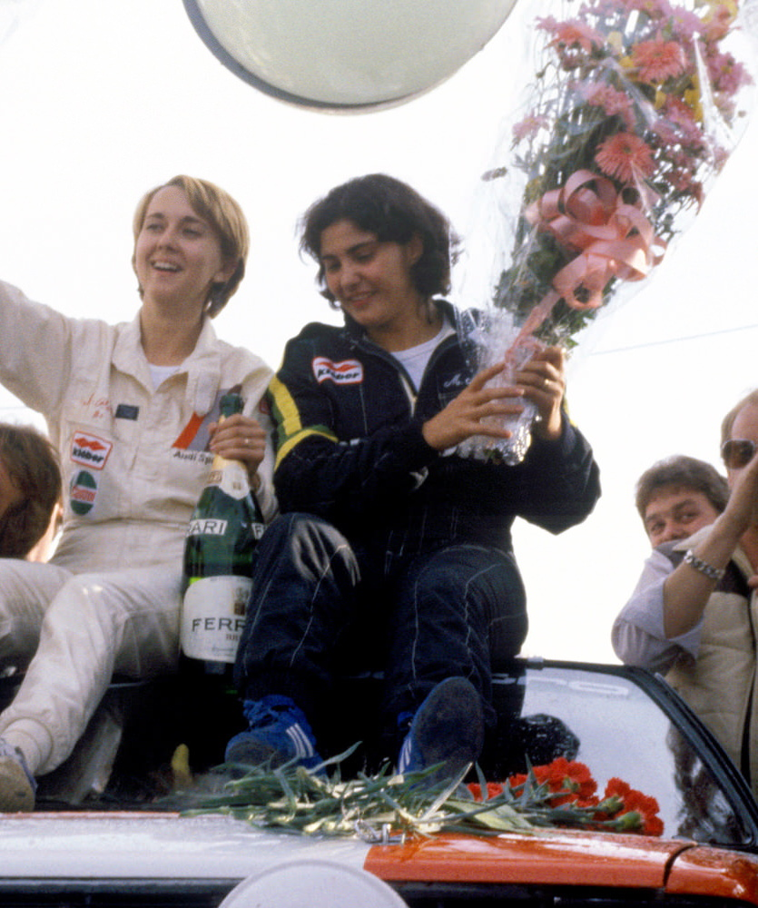 Michèle Mouton, winning the Rallye Sanremo of 1981 together with Fabrizia Pons.